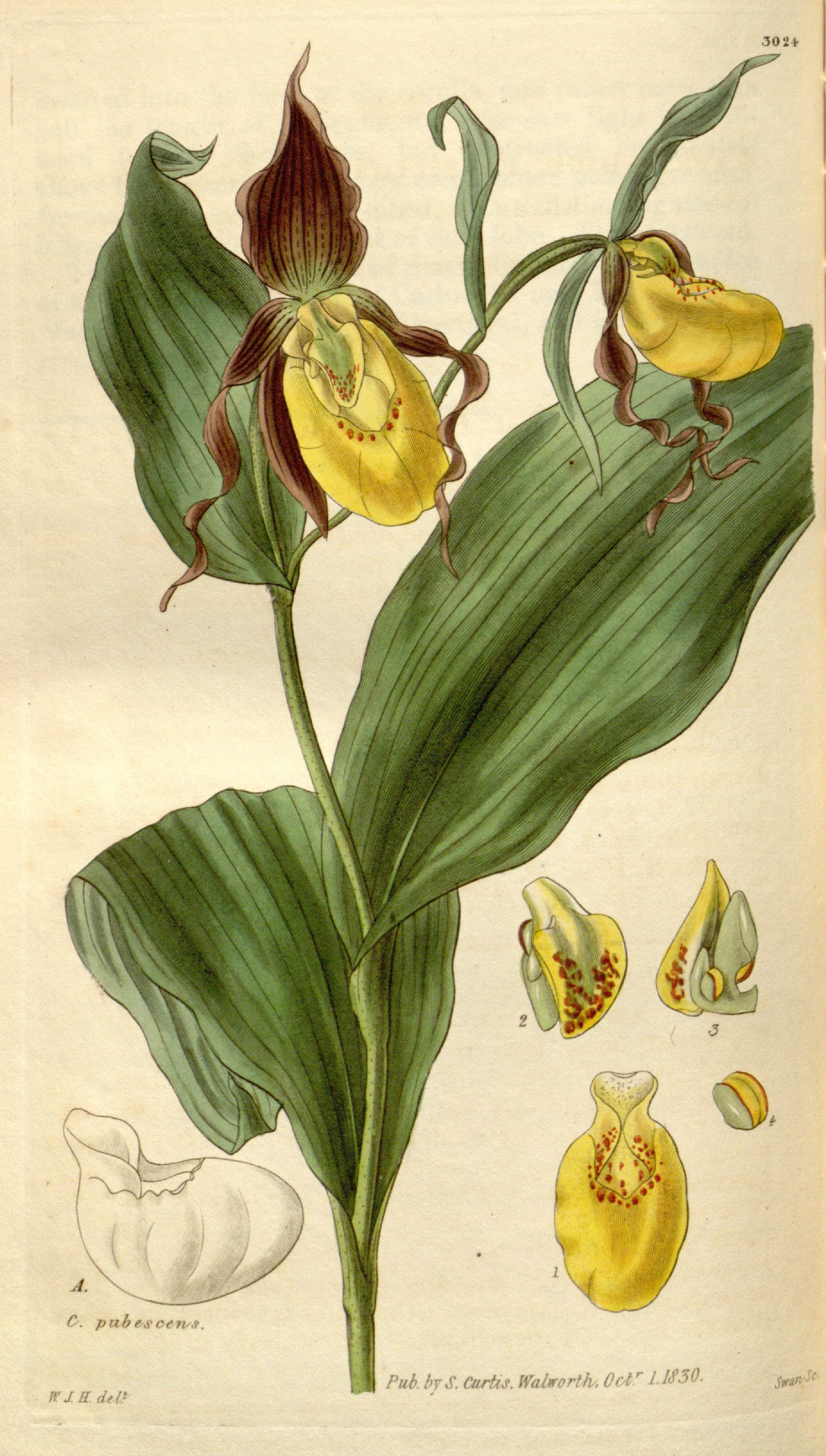 Illustration of Cypripedium parviflorum